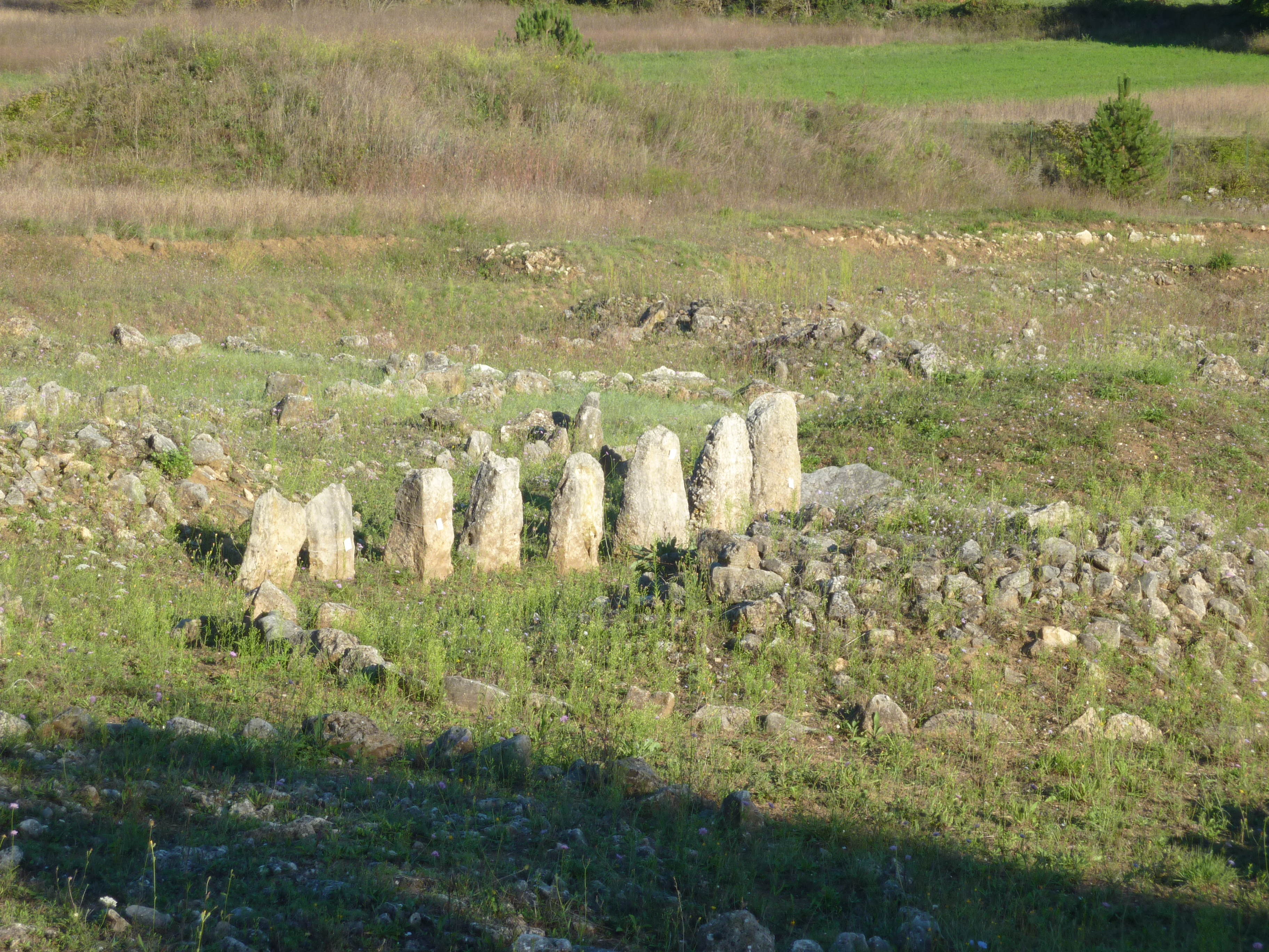 Fossa (AQ): Necropoli